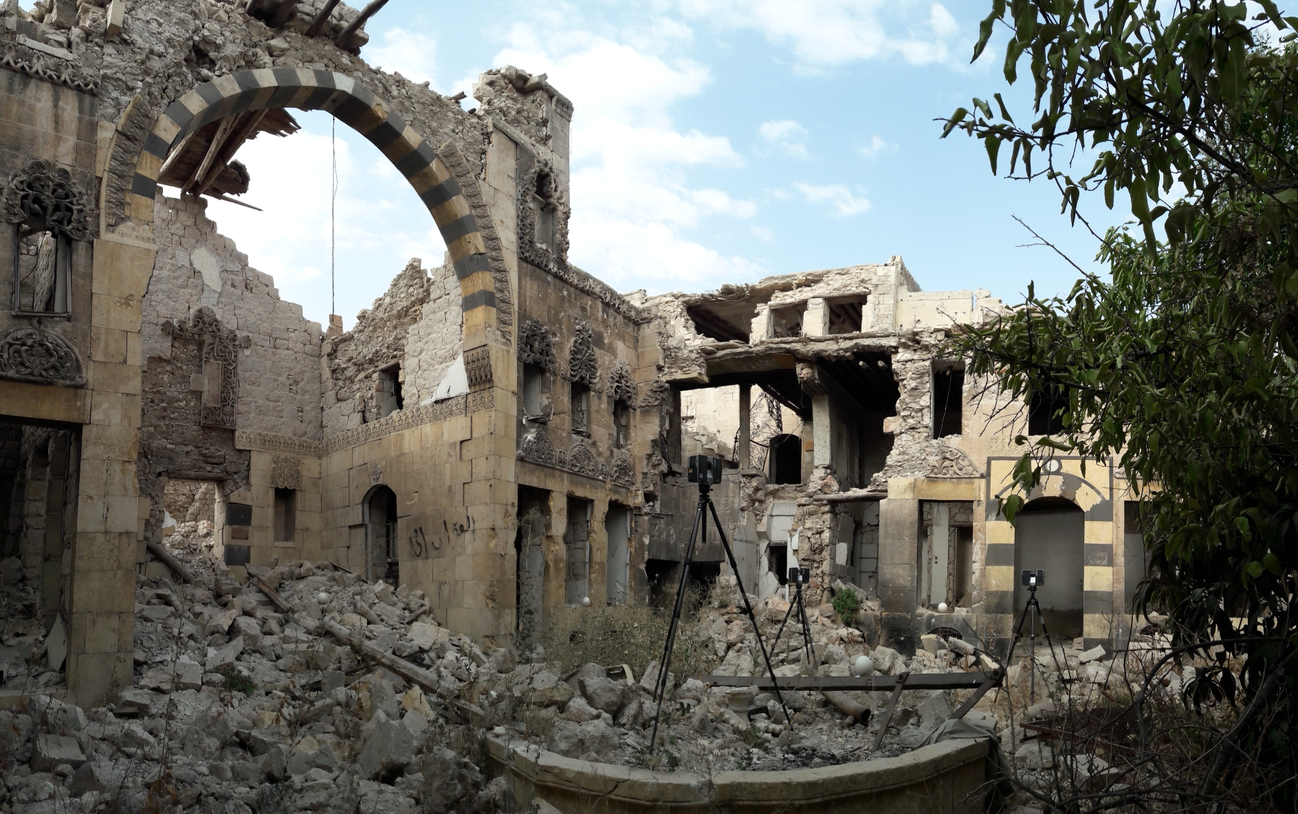 Beit Achiqbash (Arabic: بيت أجقباش في الجديدة) is an old Aleppine courtyard mansion built in 1757. Photograph was taken during damage assessment survey for UNESCO & Directorate-General of Antiquities and Museums by Art Graphique & Patrimoine in September 2017.